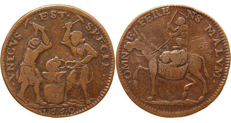 Lustucru Jeton, 1660